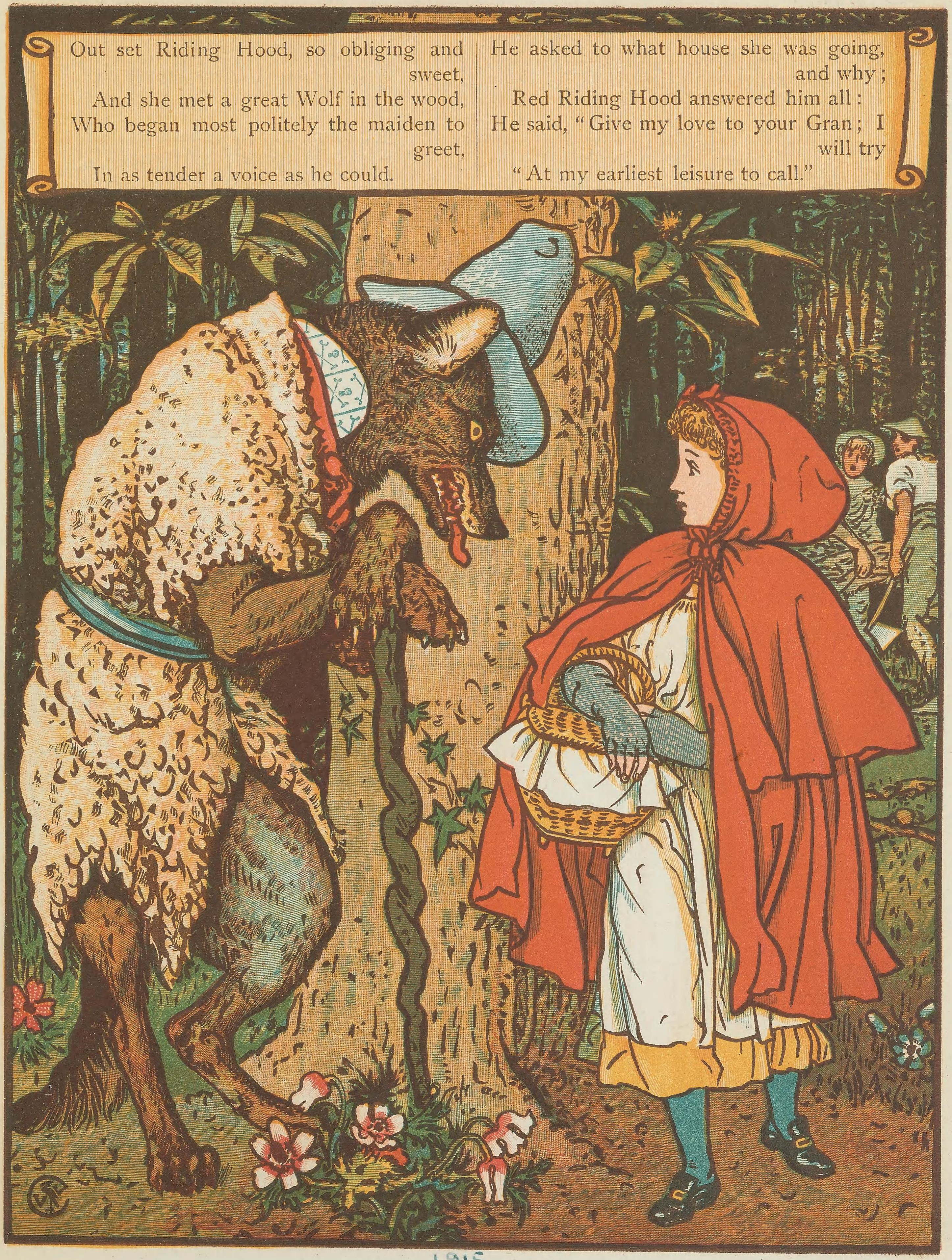 Illustration from the toy book Little Red Riding Hood (link to page). London: George Routledge and Sons, 1875.